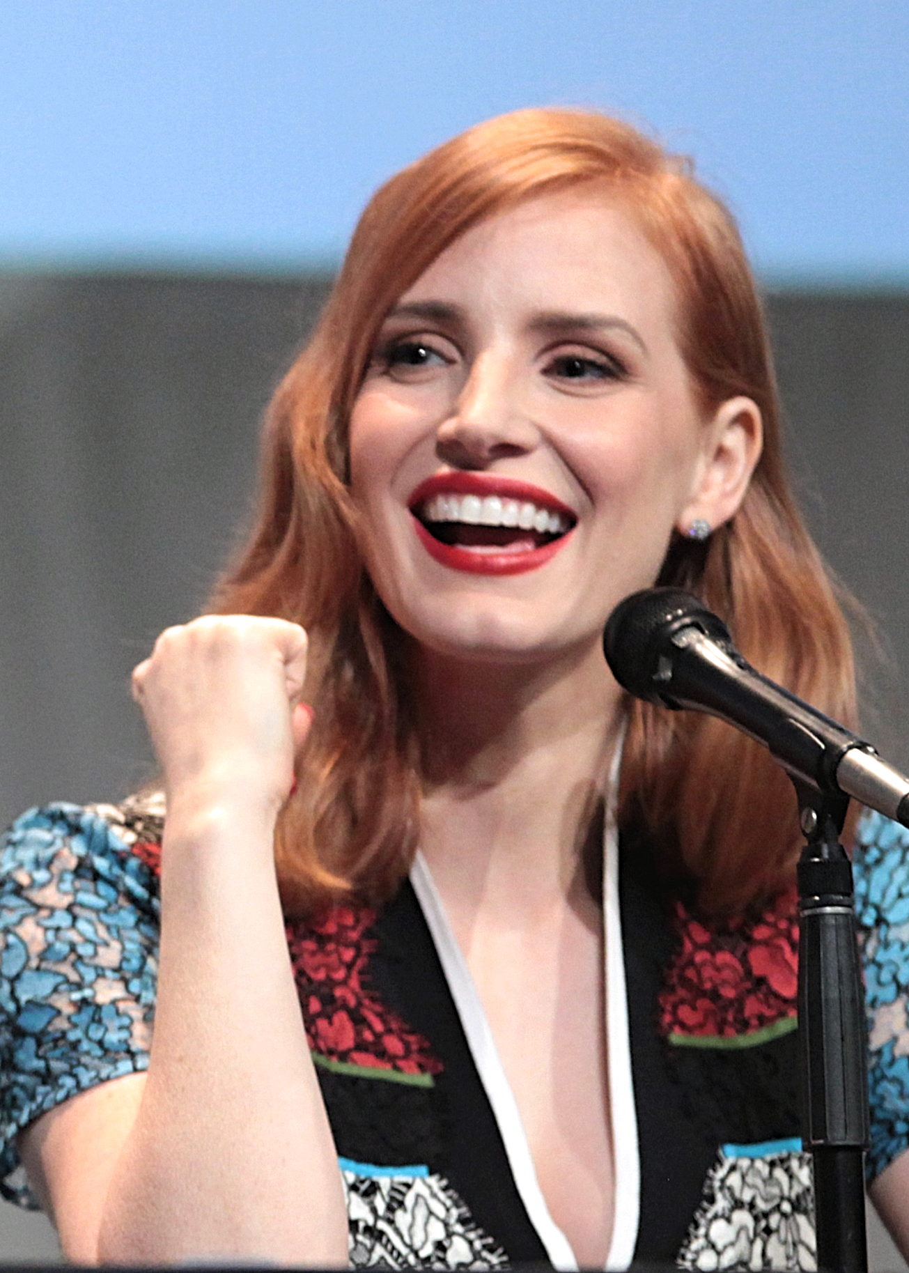 Tom Hiddleston and Jessica Chastain speaking at the 2015 San Diego Comic Con International, for "Crimson Peak", at the San Diego Convention Center in San Diego, California.